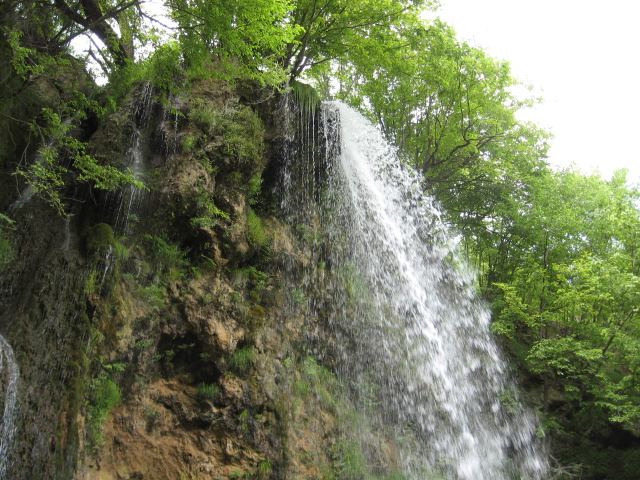 Waterfall in Gostilje, near Čajetina, Serbia